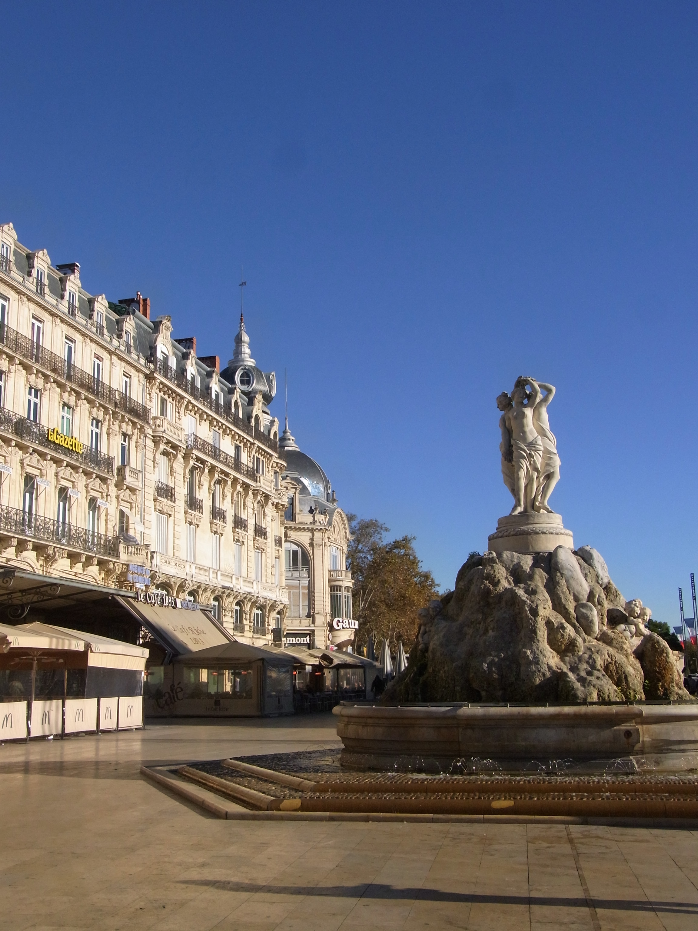 Situated in Montpellier Centre-Ville, with the statue of Three Graces